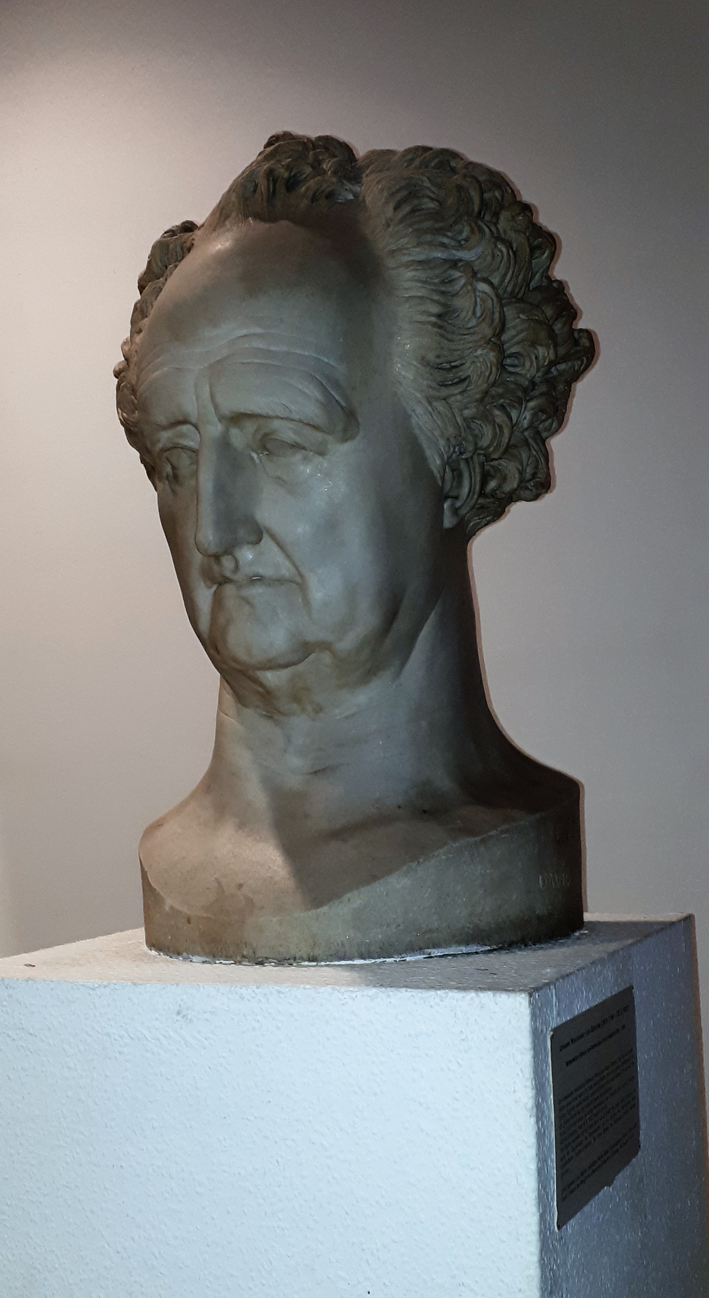 Johann Wolfgang von Goethe - Marble bust (replica) by Pierre Jean David d'Angers in the foyer in front of the Klemperer Hall of the Saxon State Library - State and University Library Dresden (SLUB)